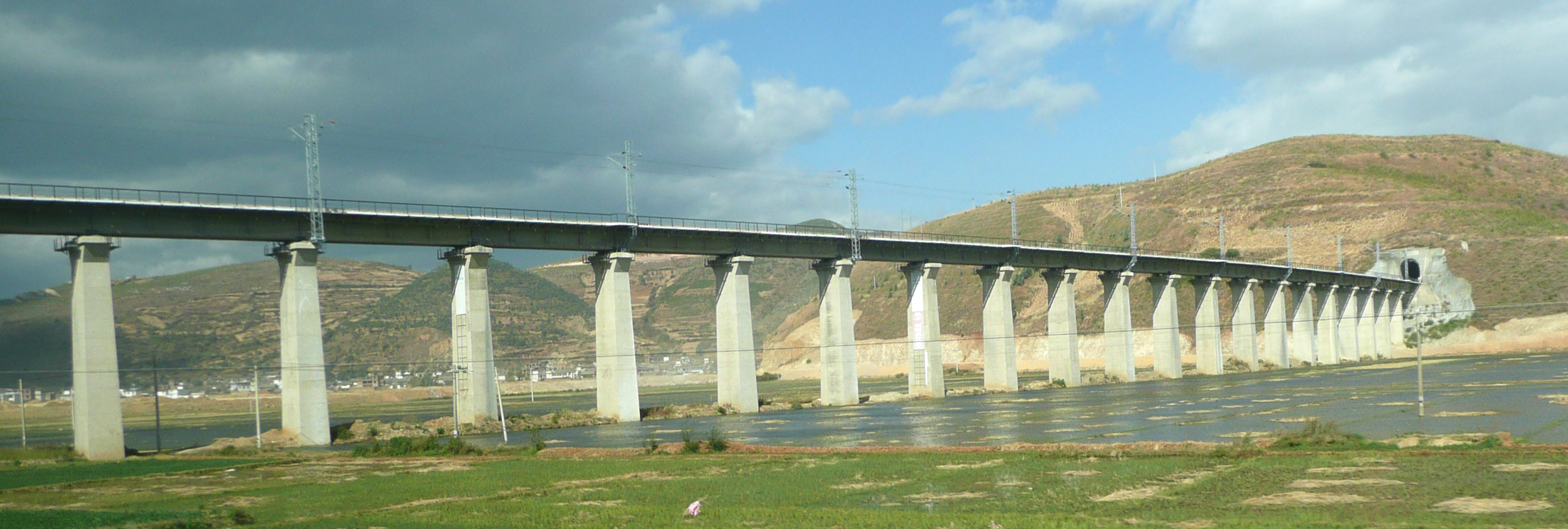 Daili-Lijiang Railway in Dali